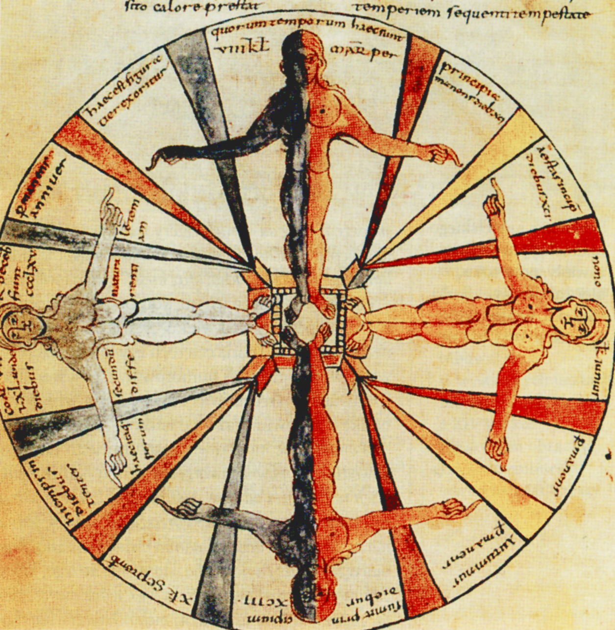 Seasons, four elements and human characters. Miniature from Isidore's of Seville De natura rerum.